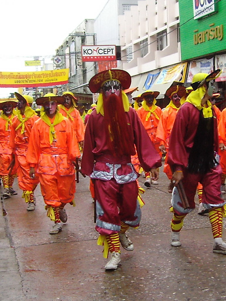 Chao Po Lakh Meuang Yasothon leading parade of Yasothon Chinese